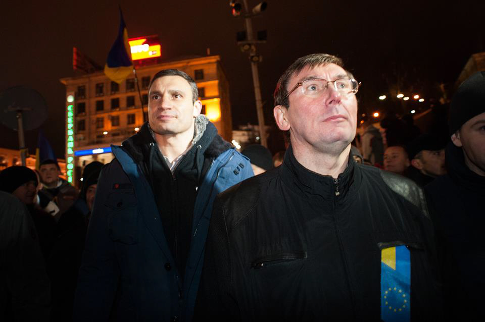 Vitali Klitschko, leader of the political party Ukrainian Democratic Alliance for Reform (left) and Yuriy Lutsenko, former Minister of Internal Affairs. (right) seen during public protest at European square in Kiev, Ukraine.